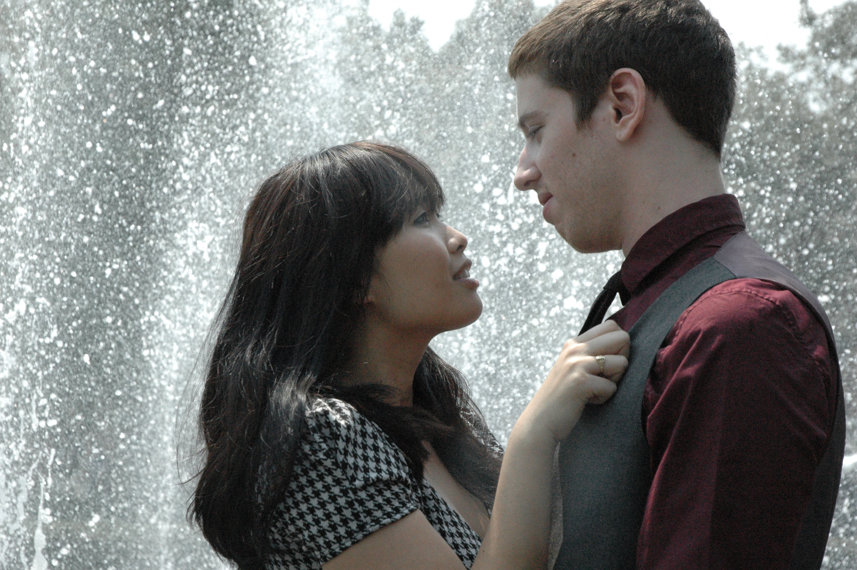 Hoboken, New Jersey, July 2008